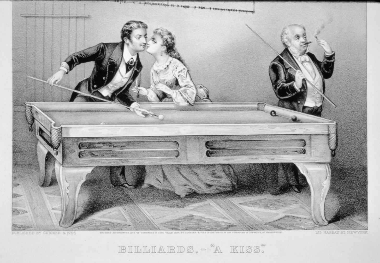 "Billiards, - A kiss": Currier and Ives caricature of young couple sneaking a kiss during a game of billiards while an older man (probably her father) is preoccupied with lighting his cigar.